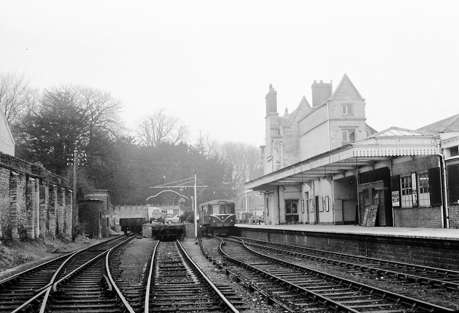 Railbus W79976 at Cirencester Town railway station.